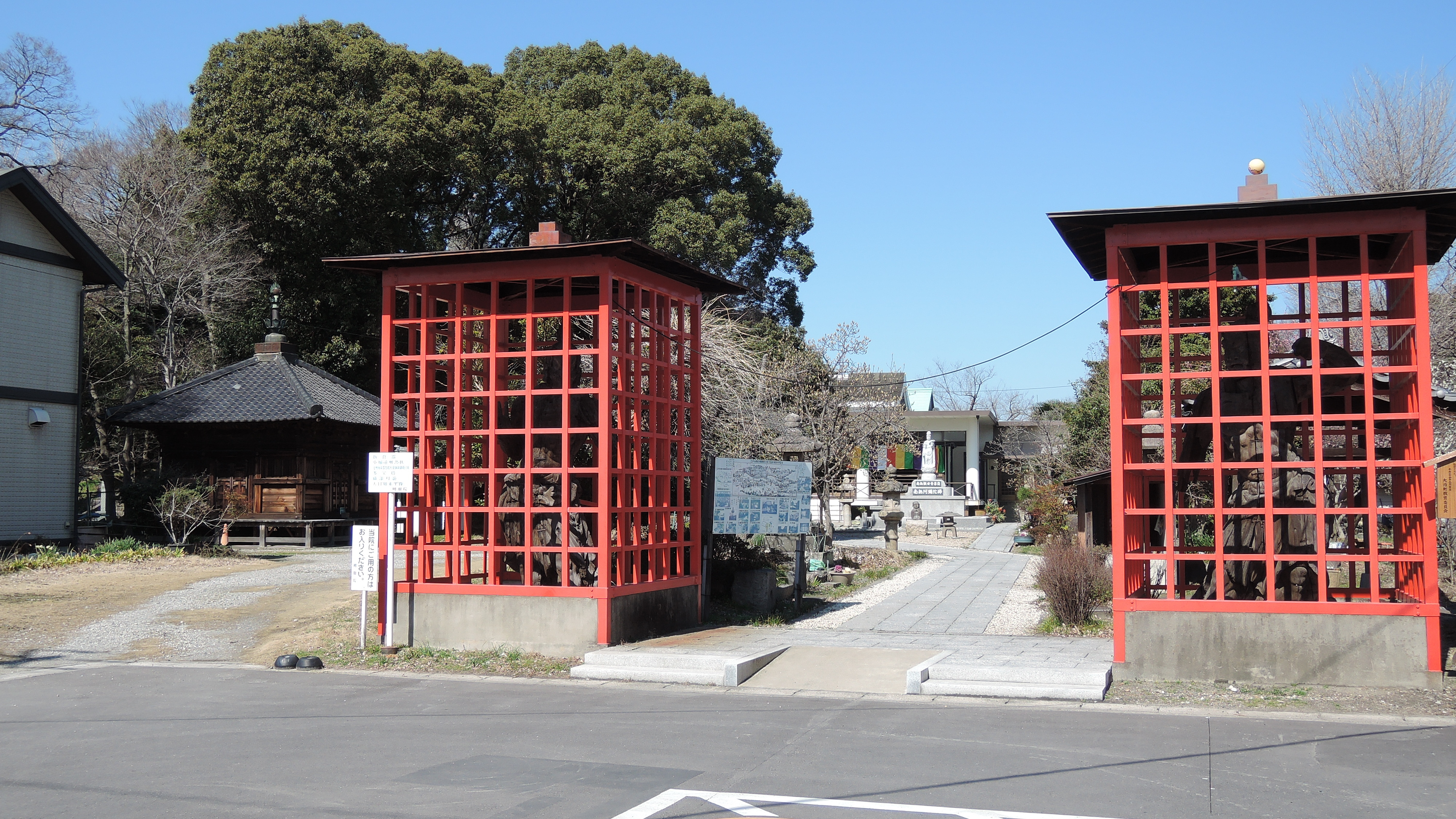 Myōgenin, Oharu town, Aichi prefecture, Japan.